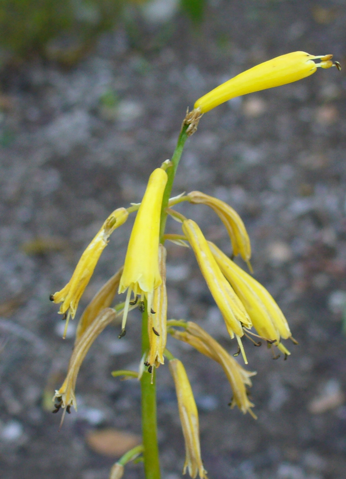 Dainty Poker (Kniphofia pauciflora)